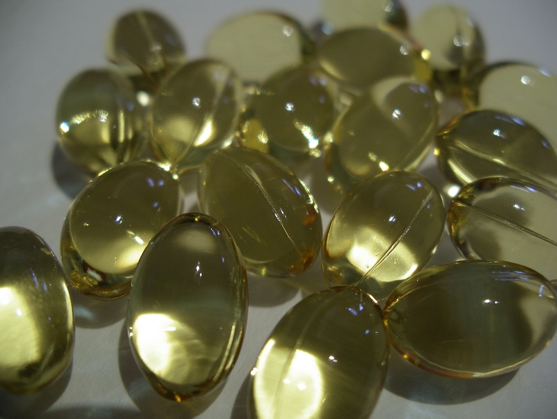 Cod Liver Oil capsules